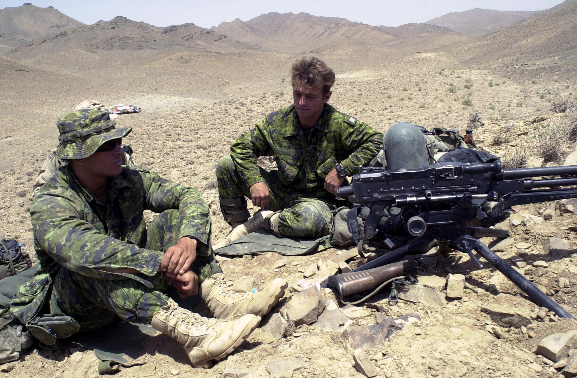 Canadian Forces Army Soldiers assigned to 3rd Battalion Princess Patricias Canadian Light Infantry (3PPCLI) man a 7.62 mm C6 general purpose machine gun on a ridge line located in the Shinkay Valley, Afghanistan, during Operation ENDURING FREEDOM.